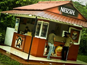 Nescafe. To us , its just a maggi center